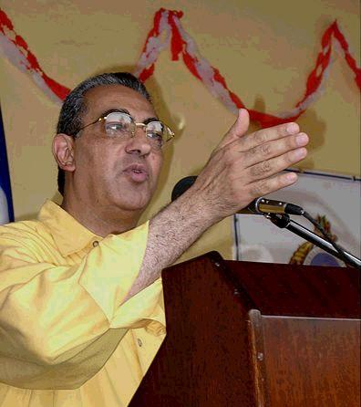 Derivative work from another Commons' file Original File:HN005SFnLMP 2xRFspeaks.jpg